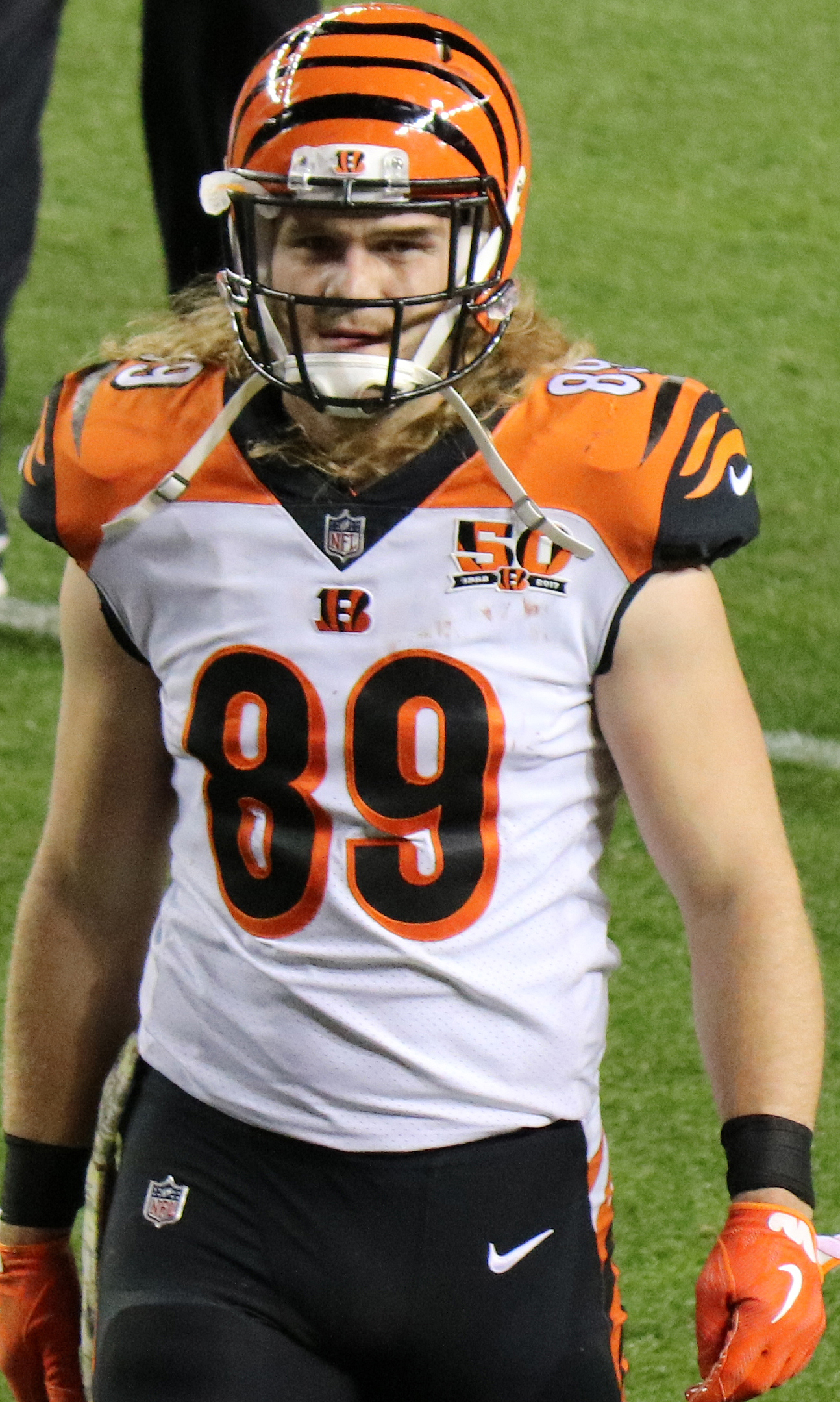 Ryan Hewitt, a National Football League player.